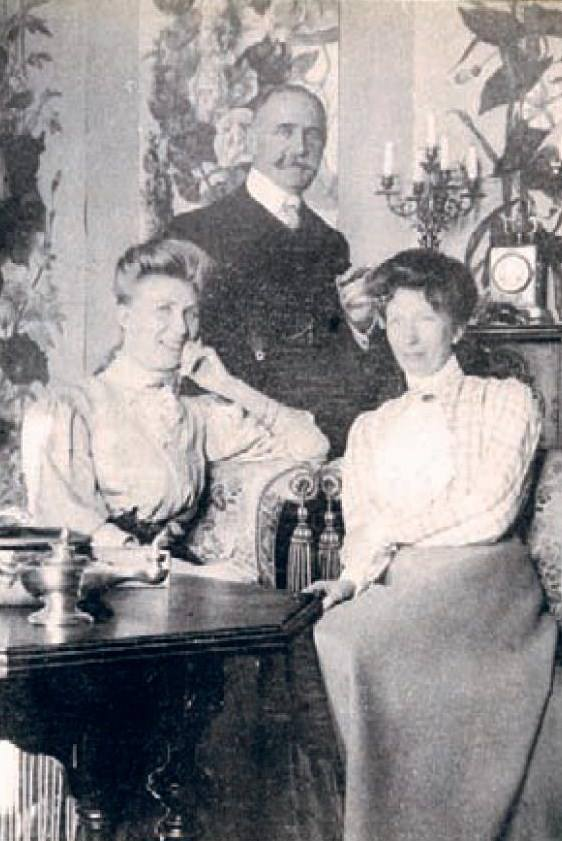 Periklis and_Efrosini Hazilazarou